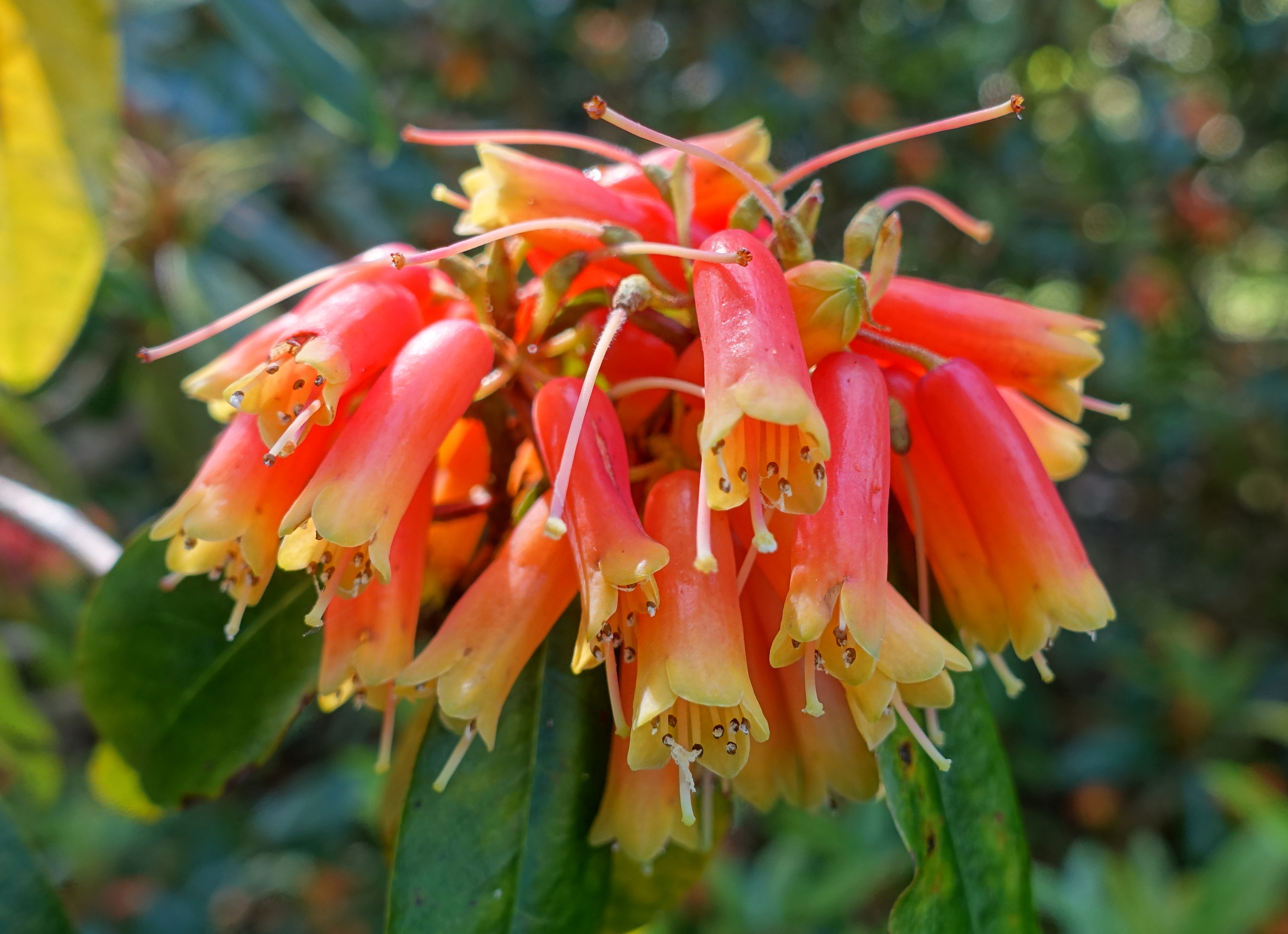 Botanical specimen in Caerhayes Castle gardens - Cornwall, England.